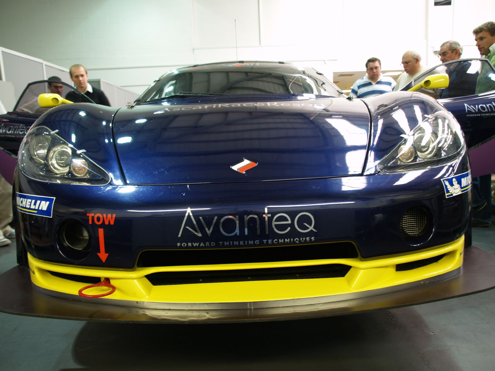 An Ascari KZ1R GT3 at the Ascari Race Resort